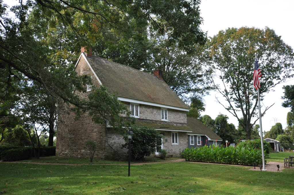 Isaac Watson House, Hamilton Township, Mercer County, New Jersey. Headquarters of the New Jersey chapter of the Daughters of the American Revolution.